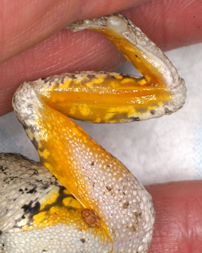 Cope's gray treefrog, Hyla chrysoscelis. Location: Durham, North Carolina, United States